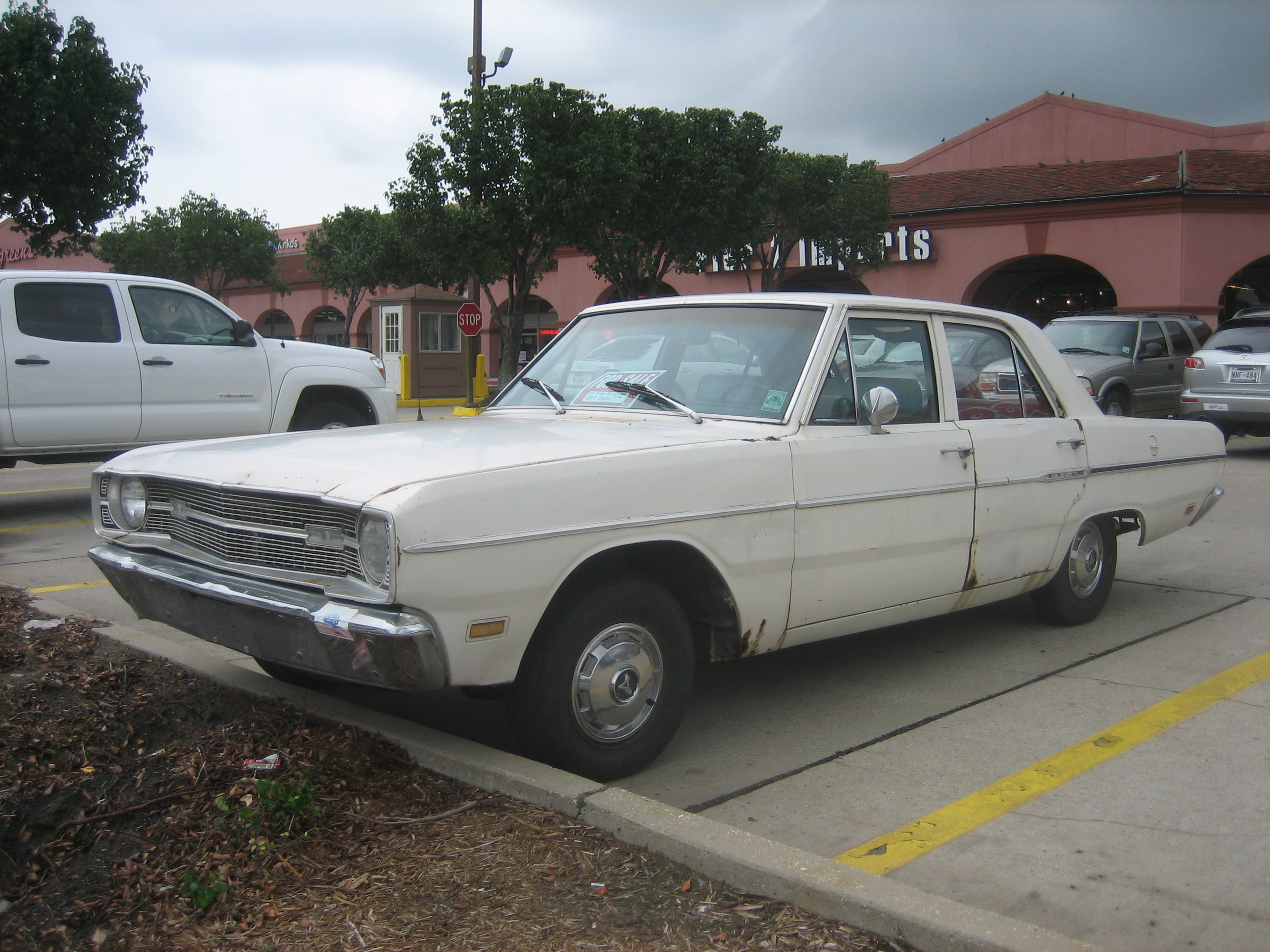 1969 Dodge Dart seen parked in Uptown New Orleans Photo by Infrogmation